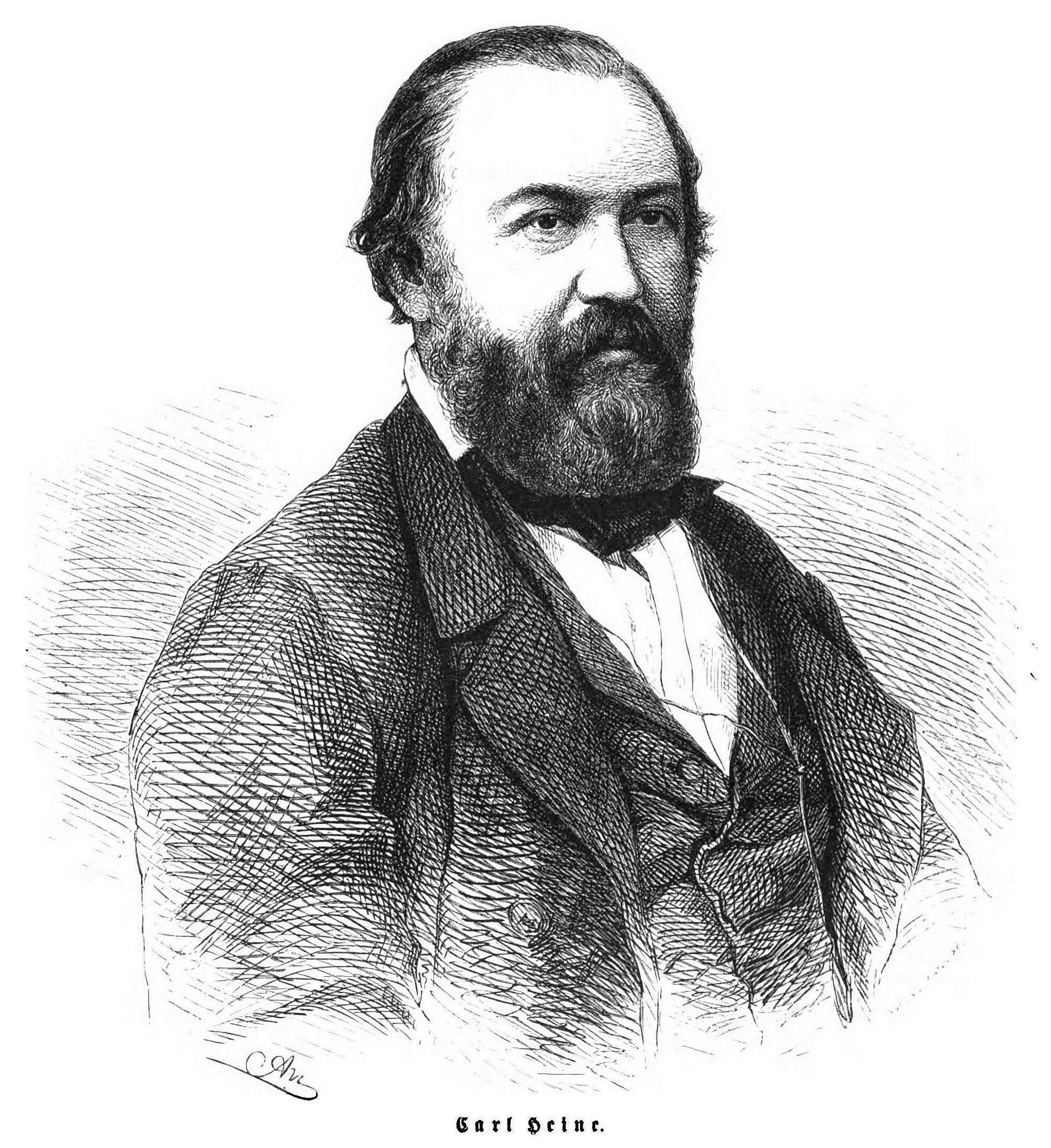 caption: "Carl Heine."